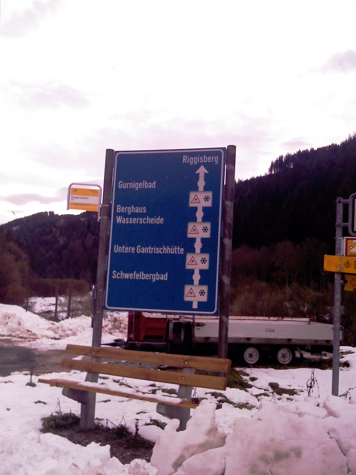 Street information board about Gurnigel at Sangernboden, Canton of Berne, Switzerland